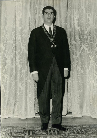 Zia'eddin_Shadman one of the Mayors of Tehran.